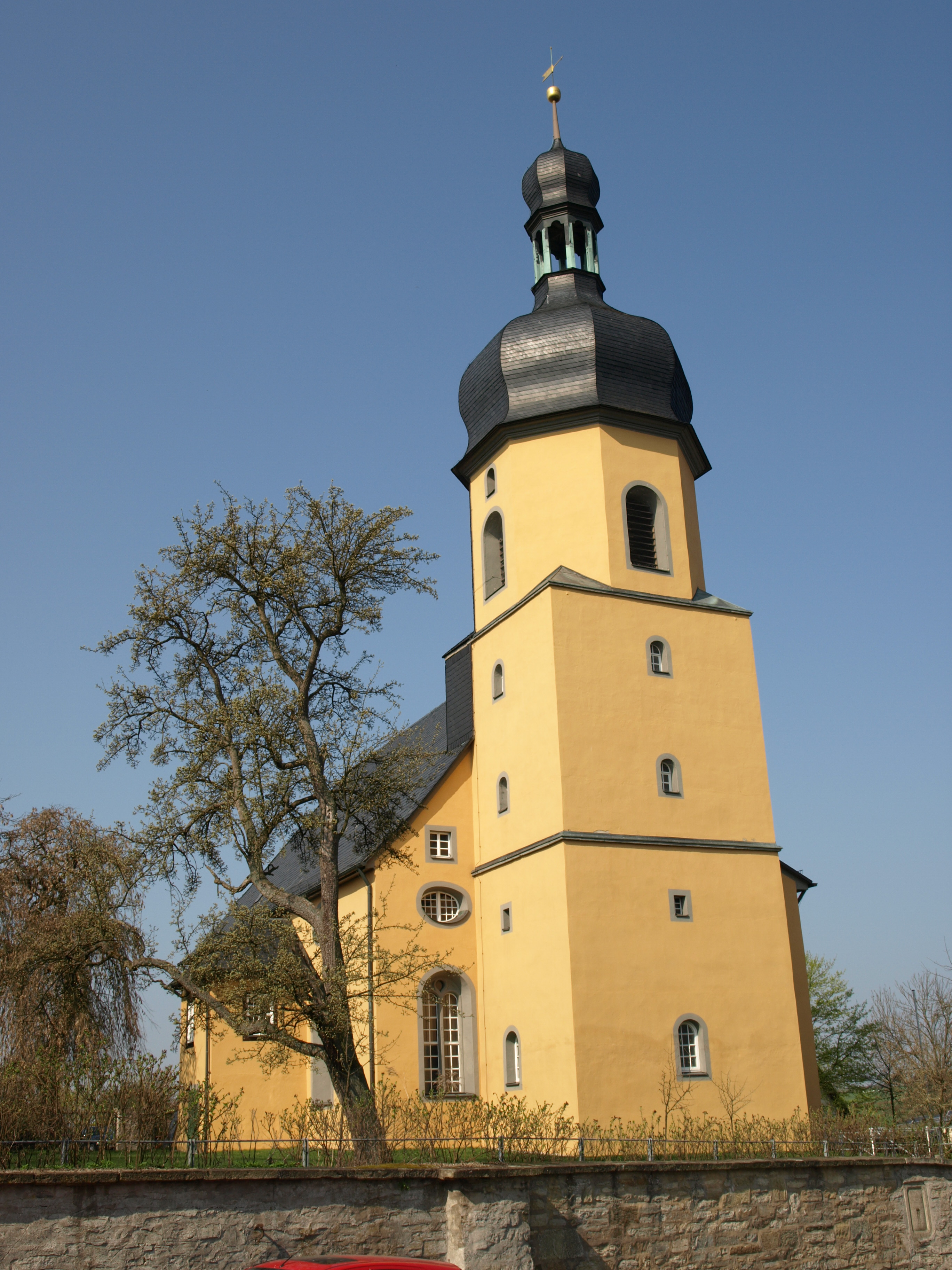 The church of Regnitzlosau.